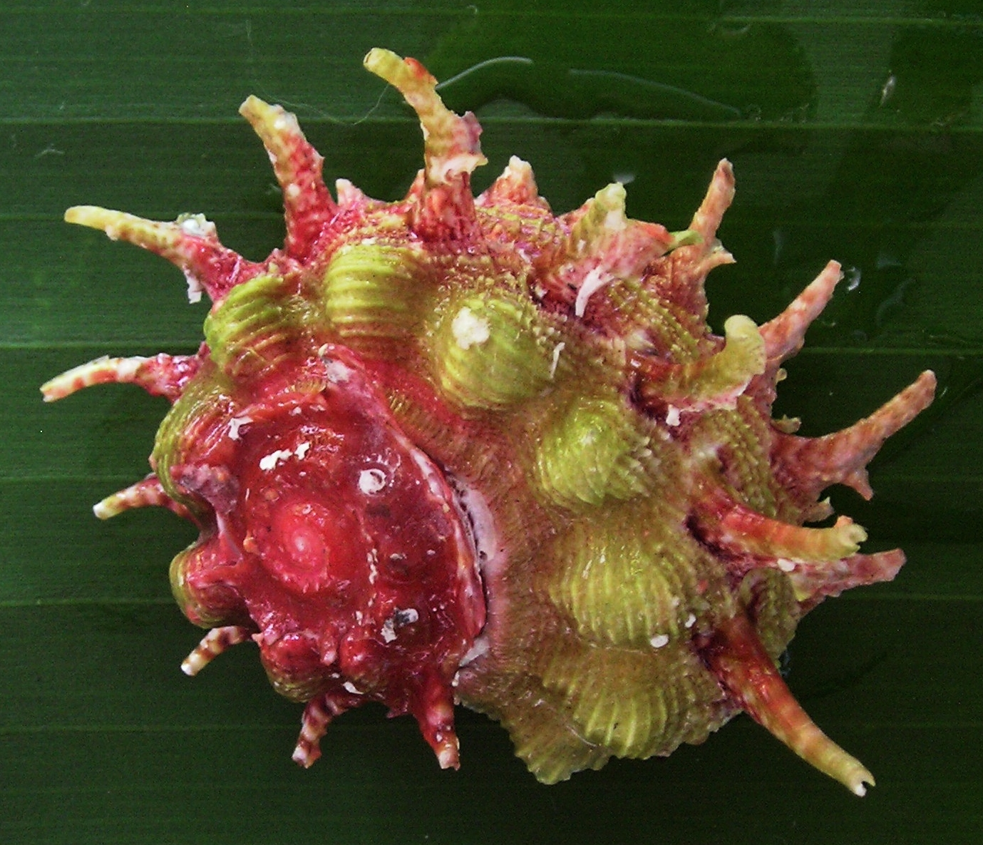 Photo of the shell of Angaria sp. (This is not Angaria sphaerula. Maybe it is Angaria vicdani? --Snek01 (talk) 23:11, 7 October 2009 (UTC)).